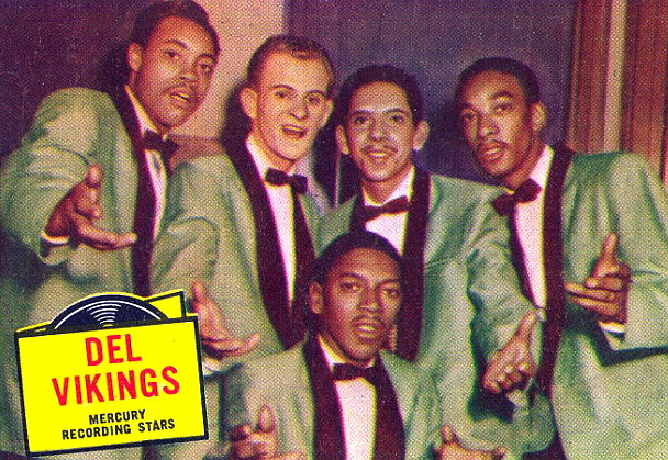 Trading card photo of The Del-Vikings. In 1957, Topps gum cards issued a series of movie stars, television stars and recording stars. They were part of their recording stars cards.